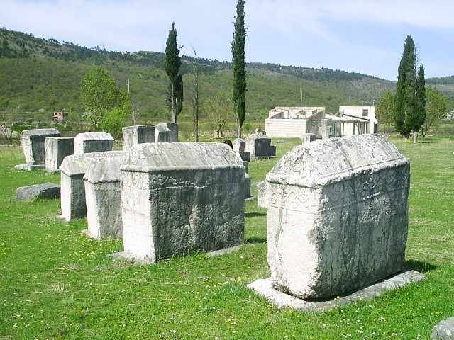 Radimlja necropolis near Stolac, BiH